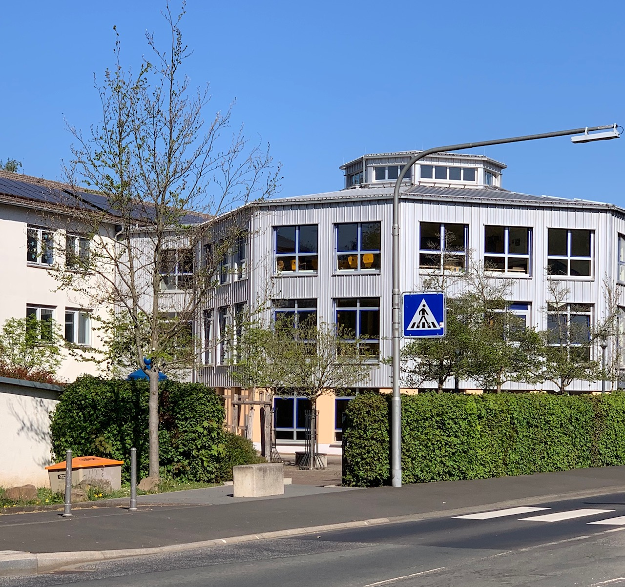 Modern Entrance to Sophie-von-Brabant School in Marburg, Germany